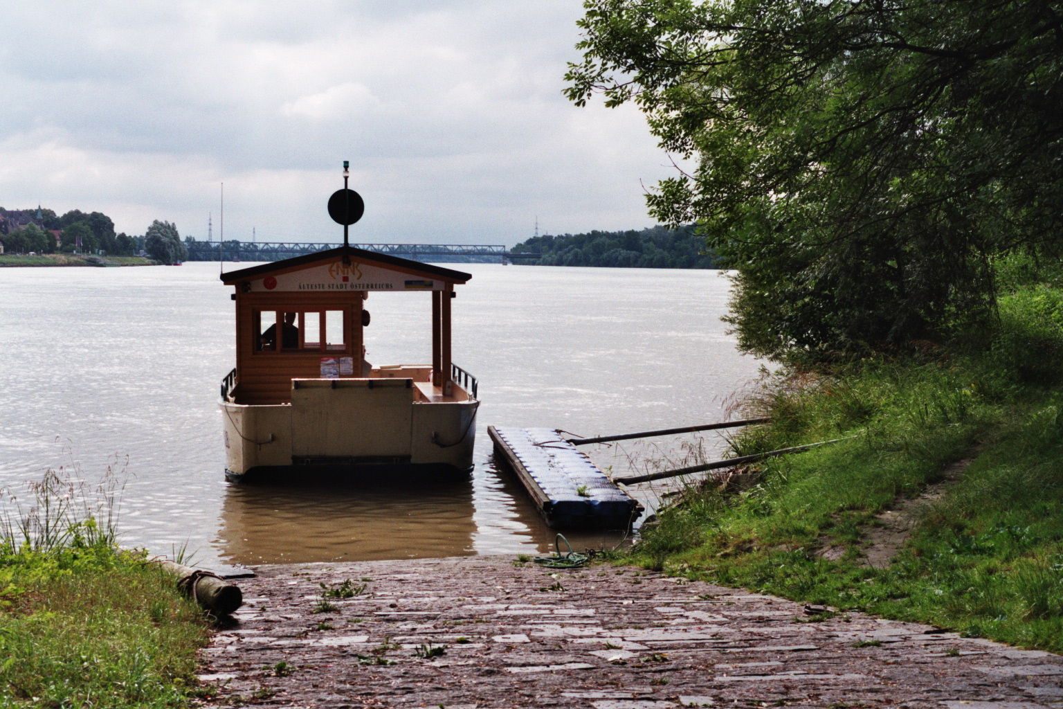 ferry for bicycles at the Donau in Upper Austria between Enns and Mauthausen